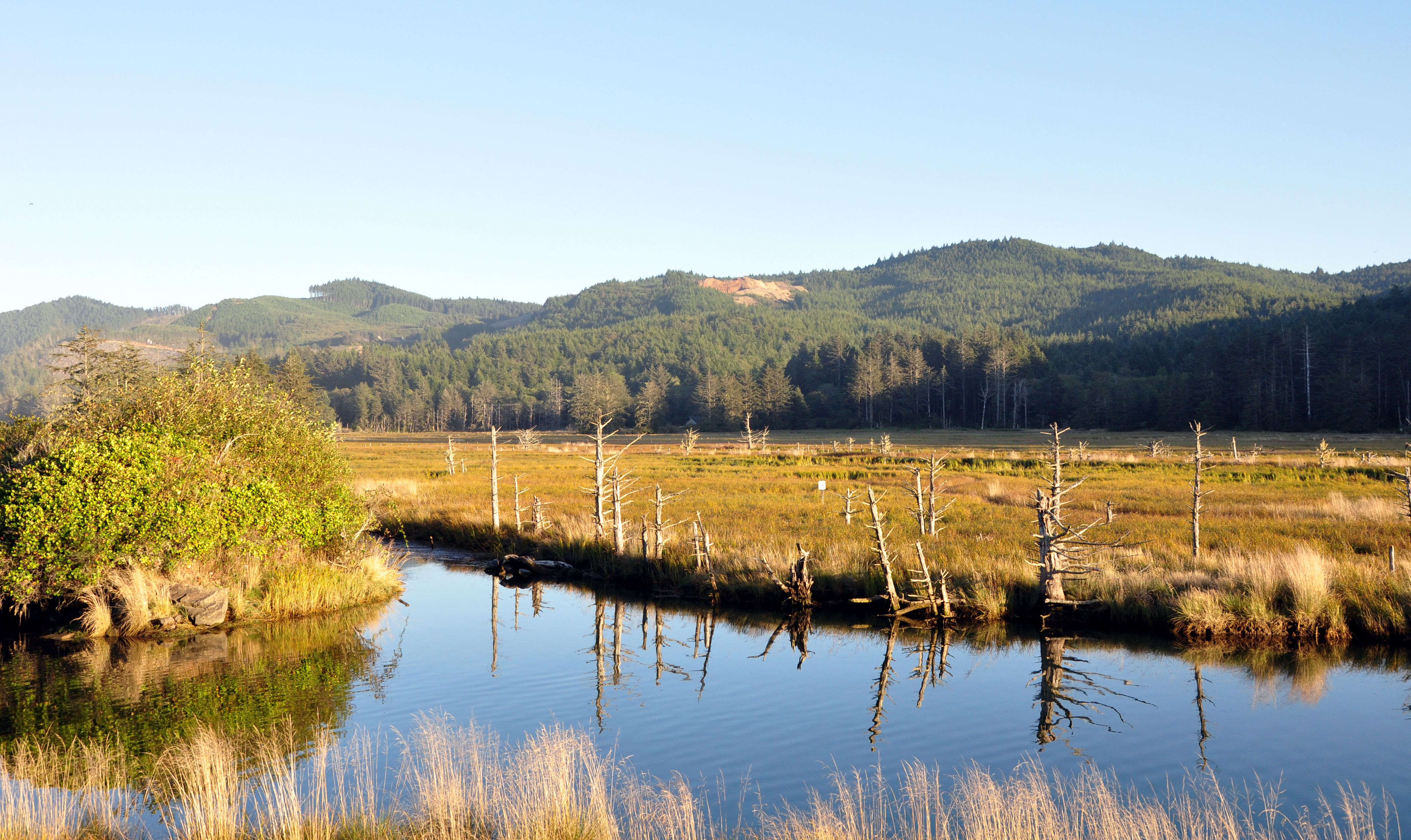 Siletz Bay National Wildlife Refuge near Lincoln City in the U.S. state of Oregon. View is to the east from U.S. Highway 101.